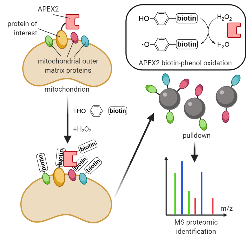 Mitochondrial outer membrane proteins are identified via proximity labeling. APEX2 is an engineered enzyme that oxidizes biotin-phenol to biotin-phenol free radical using hydrogen peroxide. In this proximity labeling experiment to identify mitochondrial outer membrane proteins, APEX2 is fused to a known mitochondrial outer membrane protein in live cells. Biotin-phenol and hydrogen peroxide are then added sequentially. APEX2 oxidation causes biotin-phenol to react with nearby proteins. The proteins are pulled down with streptavidin beads for subsequent identification by mass spectrometry proteomics. Figure generated with Assets used under terms of the BioRender Basic License. Created with [1].